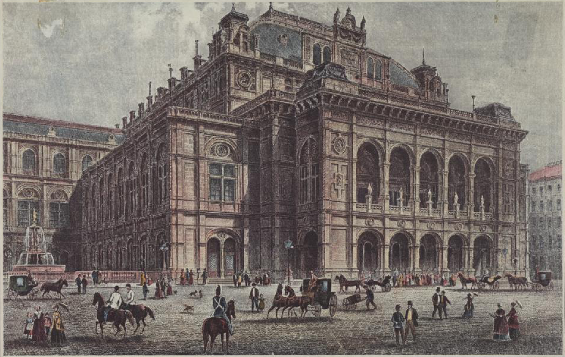 The Vienna Court Opera.Lithography around 1870.